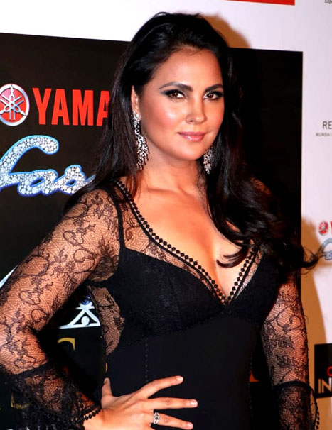 Lara Dutta at the Miss Universe India 2018.